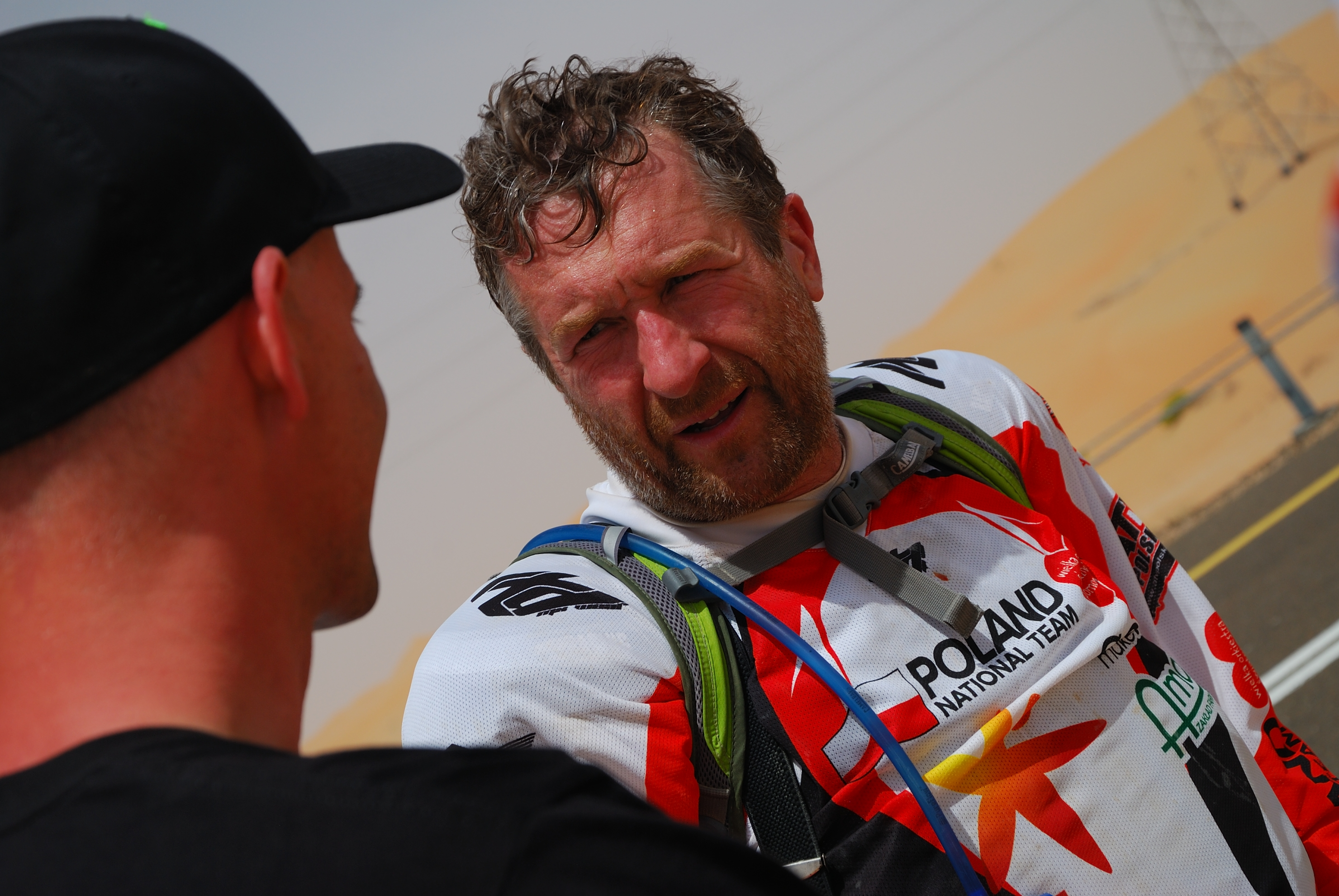 Tomasz Gollob & Rafał Sonik, Abu Dhabi.